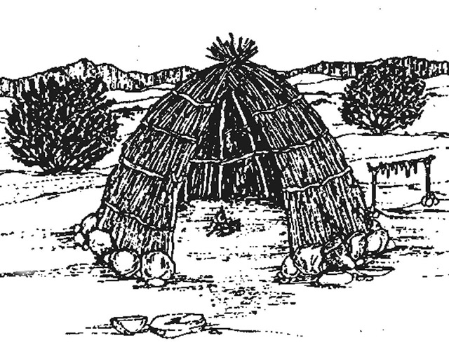 A wikiup, a type of cone-shaped hut covered with brush or mats made of tules, utilized by aboriginal Indian tribes throughout the Southwestern U.S.